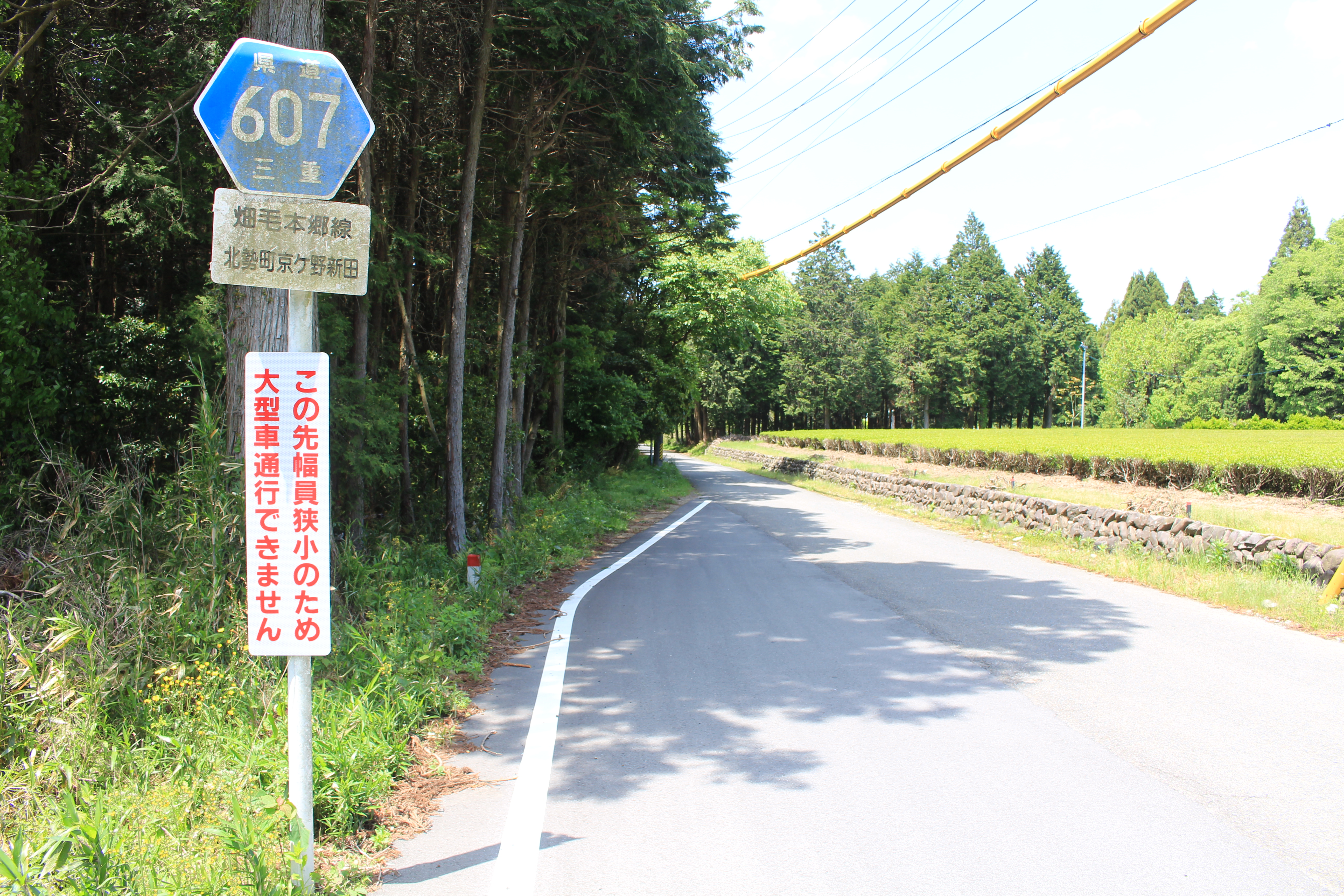 Mie Prefectural Road Route 607 in Kyoganoshinden, Hokusei-cho, Inabe, Mie prefecture, Japan.